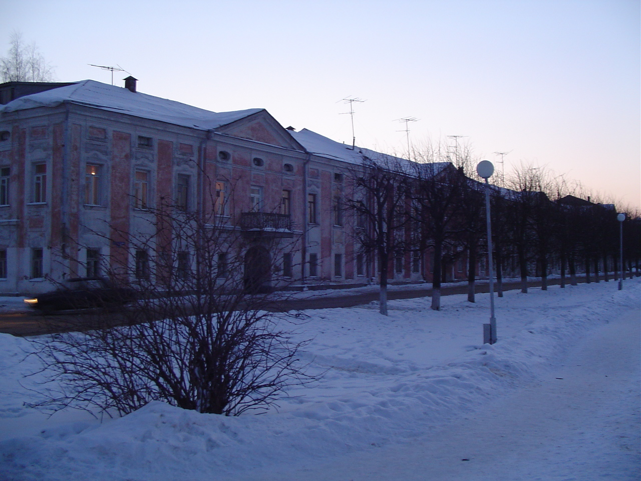 Tver, residential buildings on Stepan Razin Street (end of 18th century by Pyotr Romanovich Nikitin).